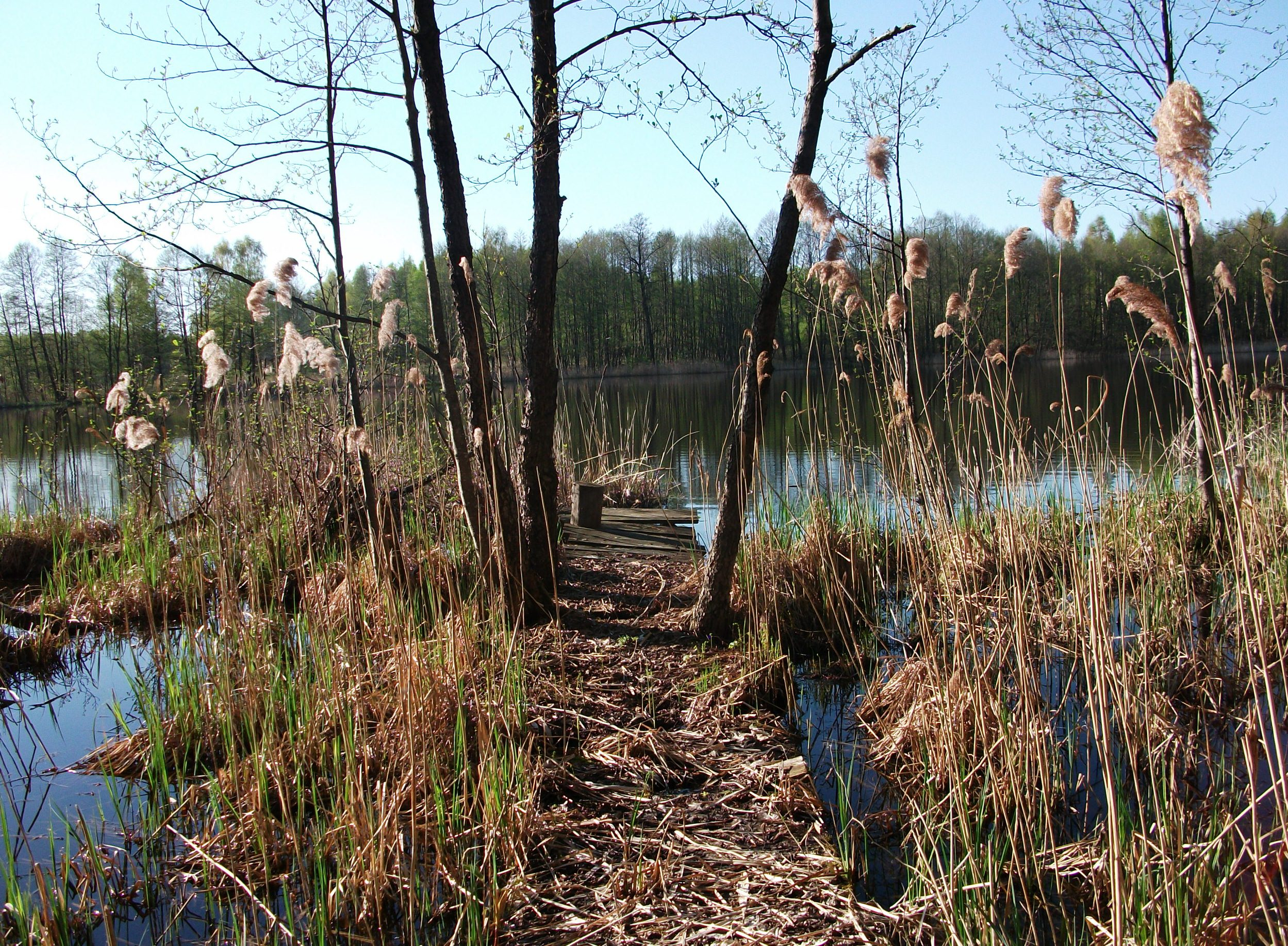 Galadzyanka Lake, Astraviec district, Belarus